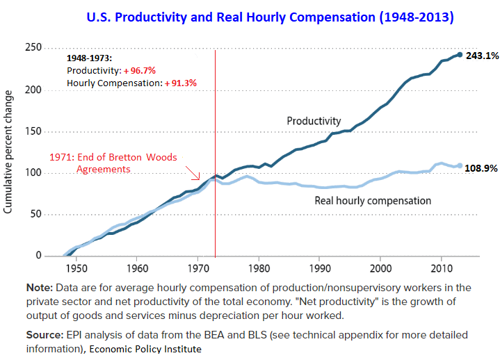 U.S. Productivity, Real Hourly Compensation and Trade Policy (1948-2013)